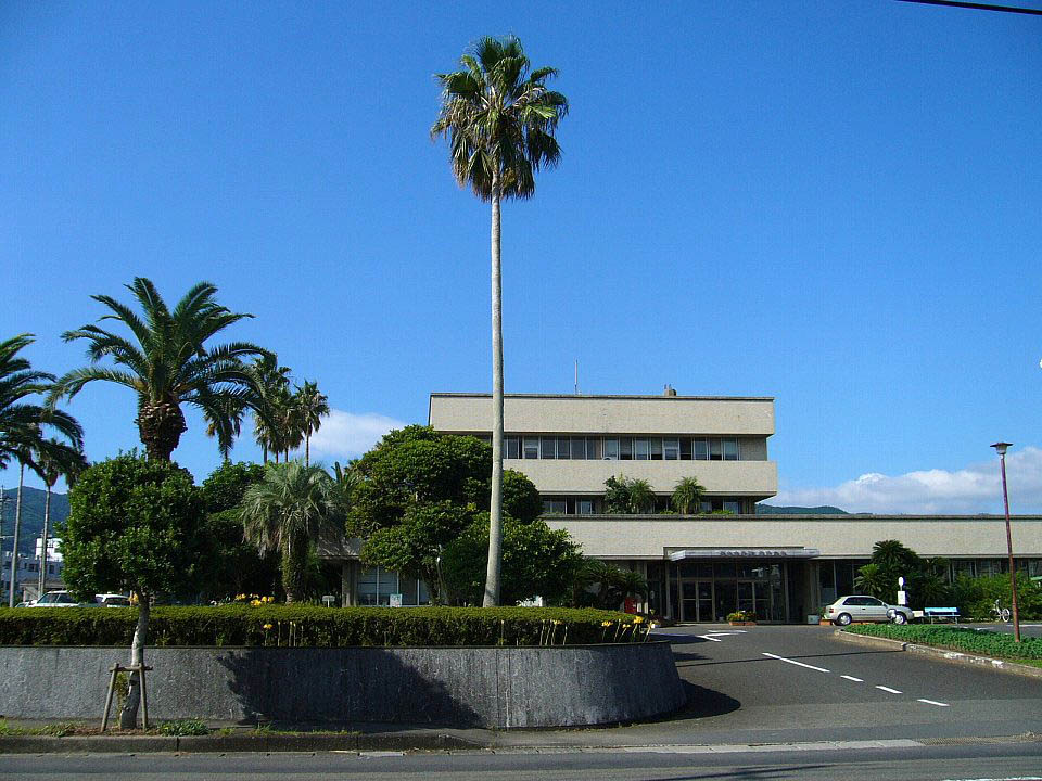 Town hall of Ibusuki, Kagoshima, Japan.